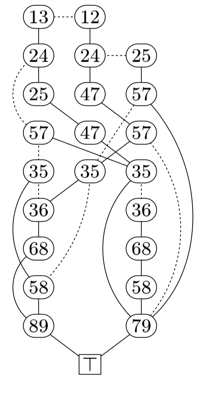 Figure 13: ZDD for the simple paths of a three by three grid